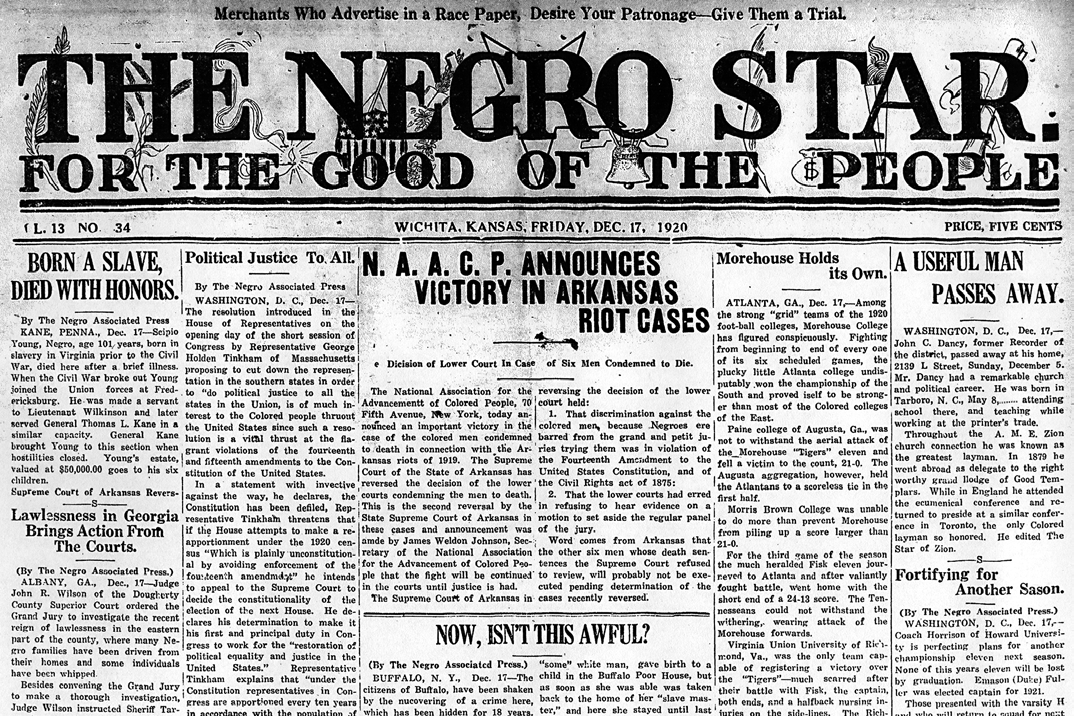 Front page (above the fold) of The Negro Star, December 17, 1920